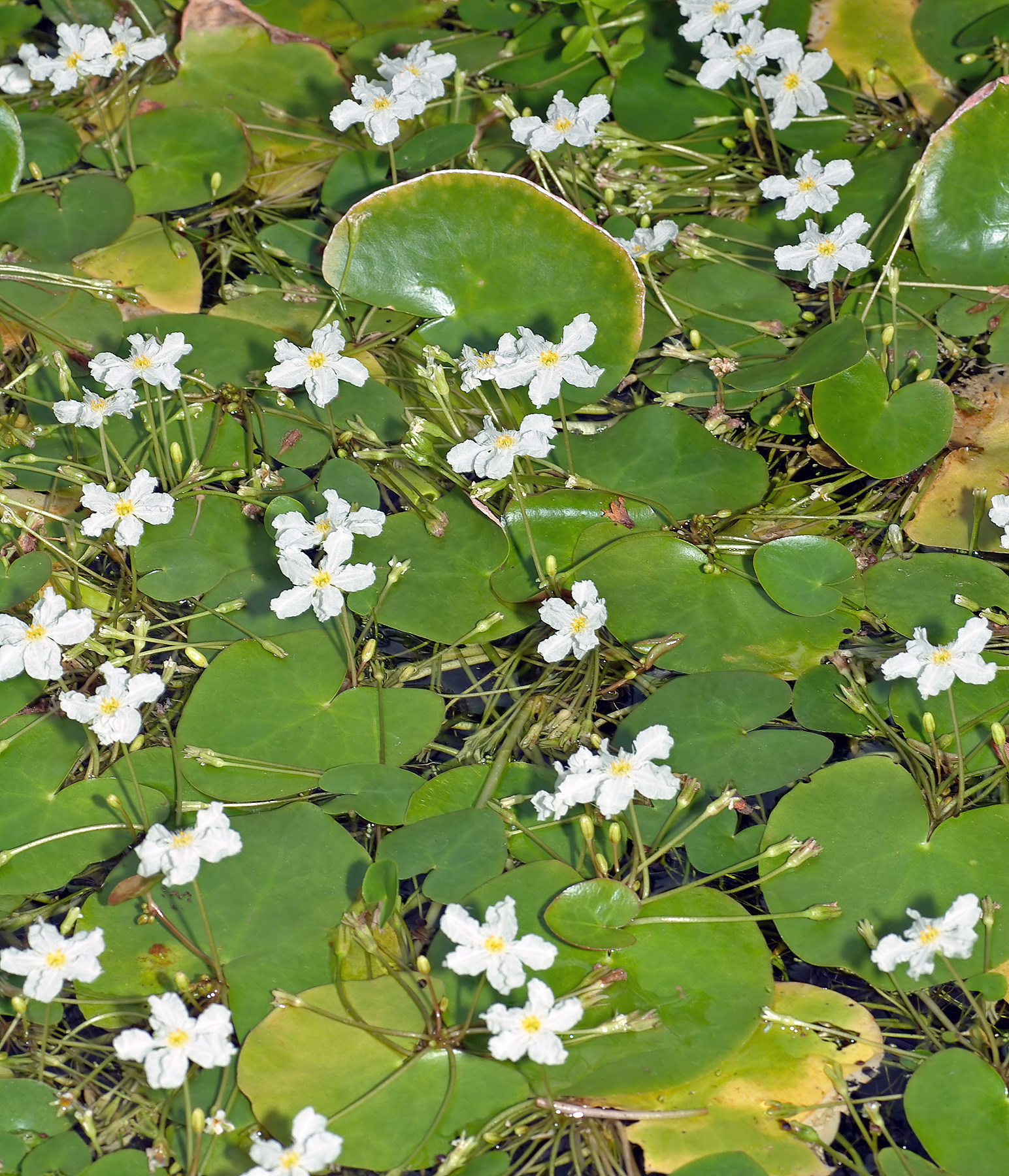 This image shows a plant of the species Nymphoides ezannoi.